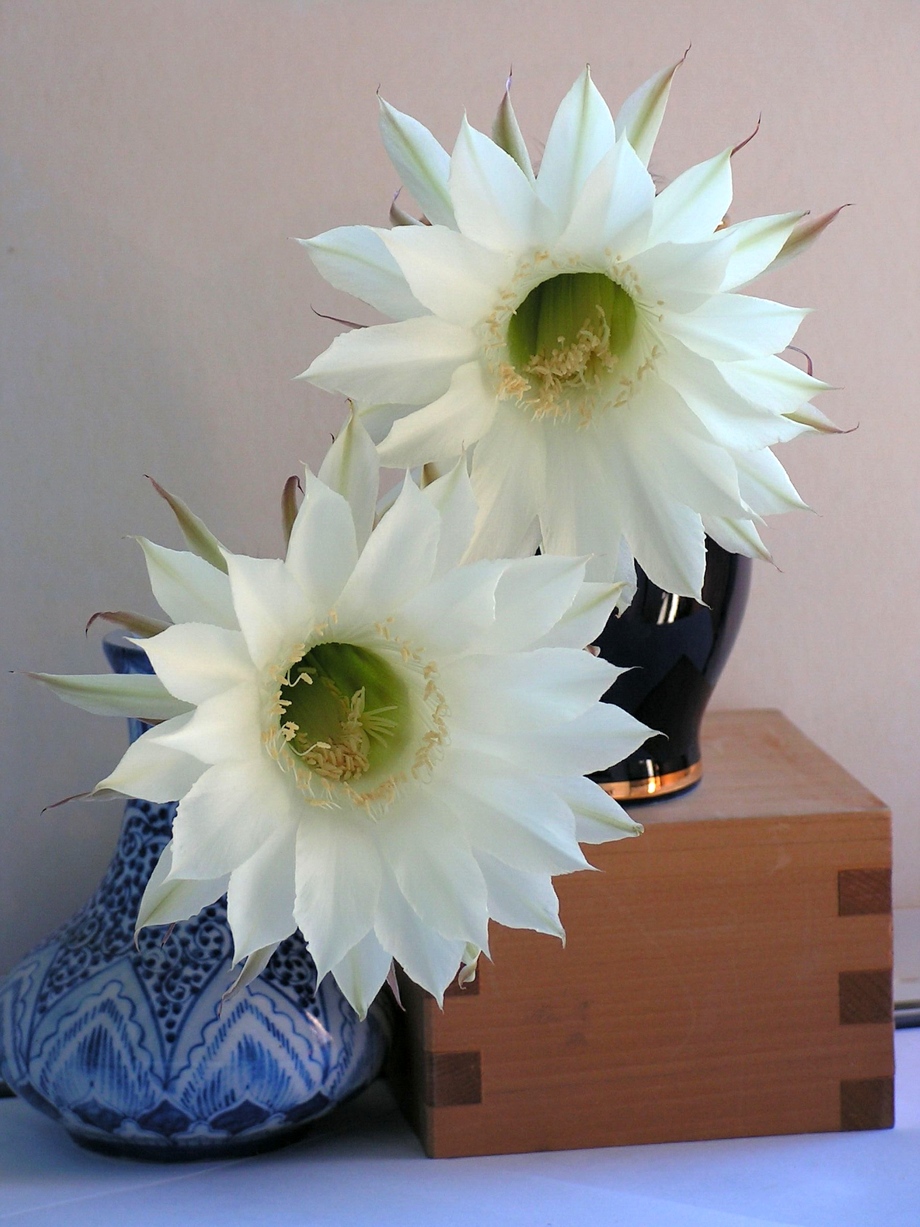 Floral composition with flowers of Echinopsis.